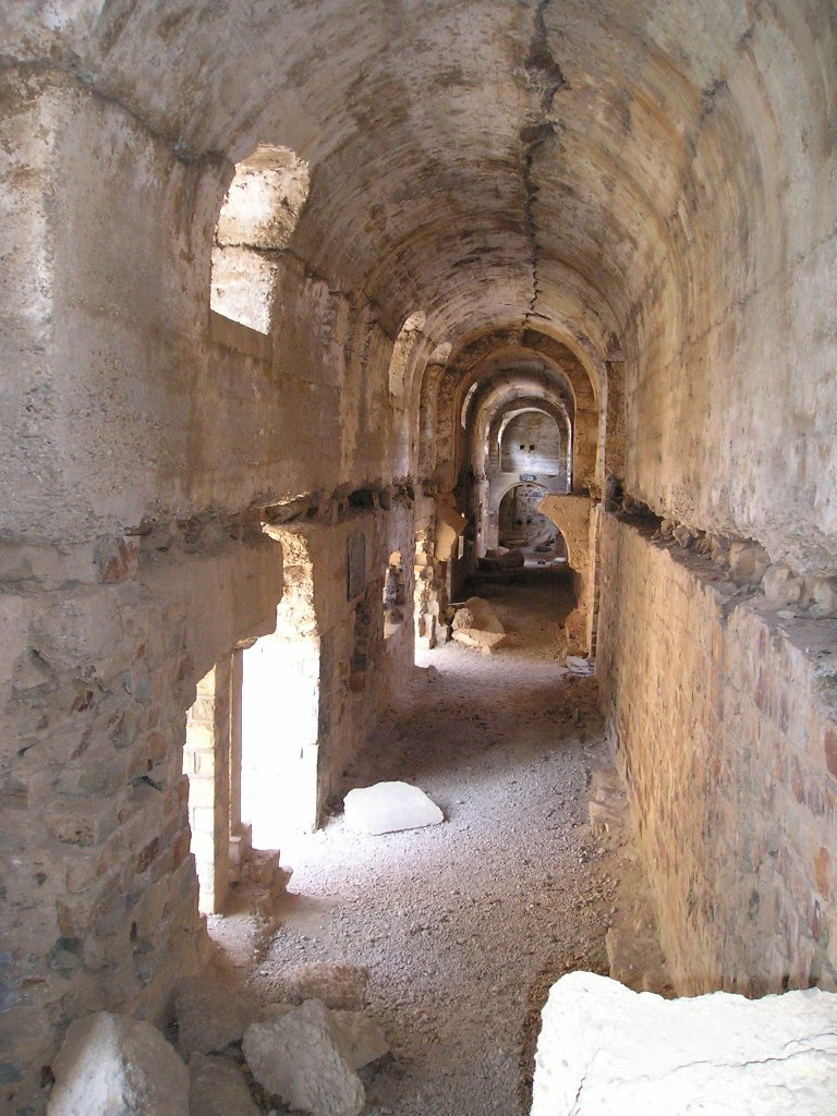 Inside view of fortress of Port Arthur